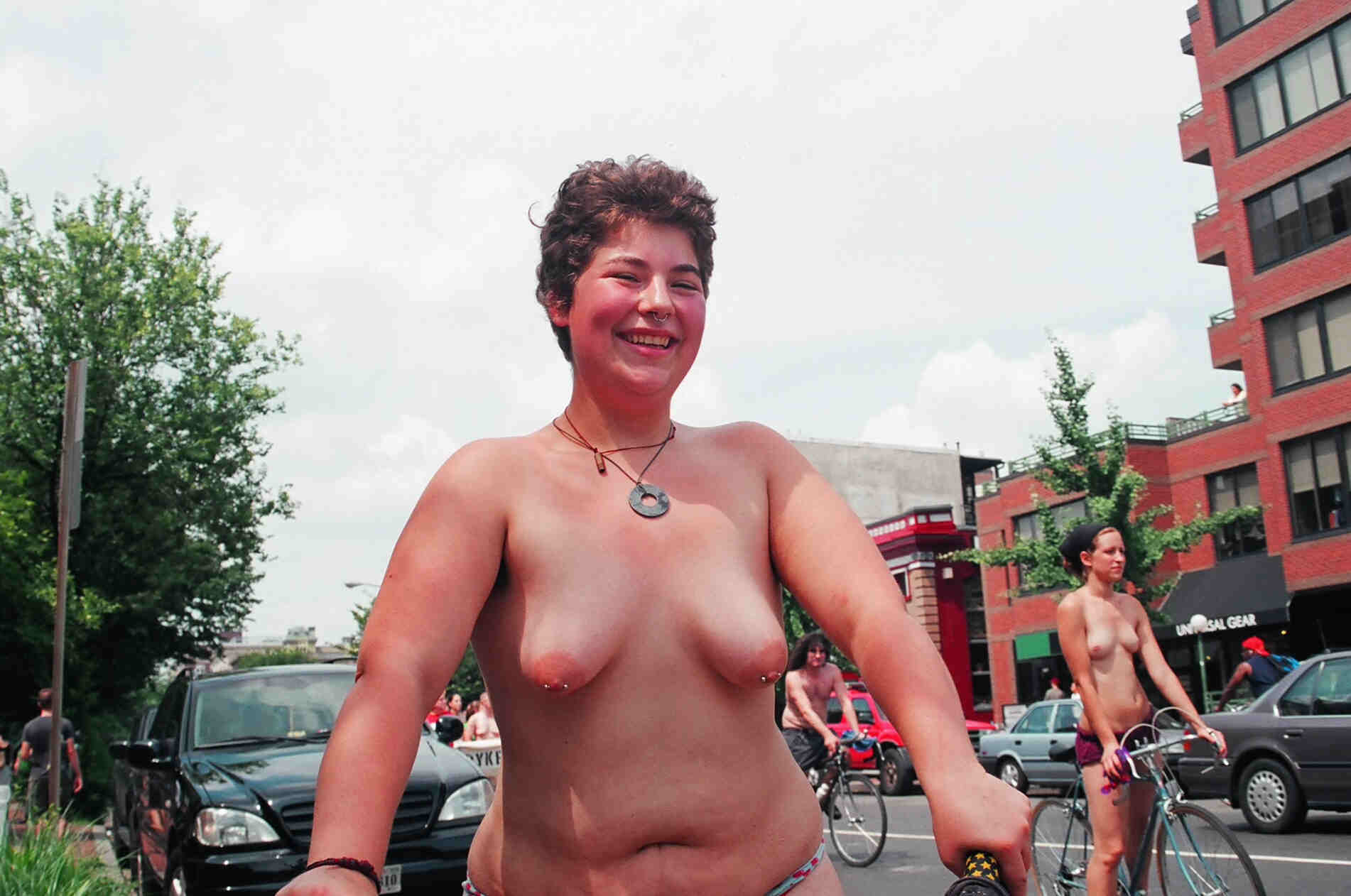 Dyke March 2005 Dyke March . 17th Street nearing P Street . NW WDC . Saturday, 11 June 2005